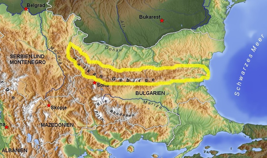 location of Balkan mountain (Стара планина) in Bulgaria